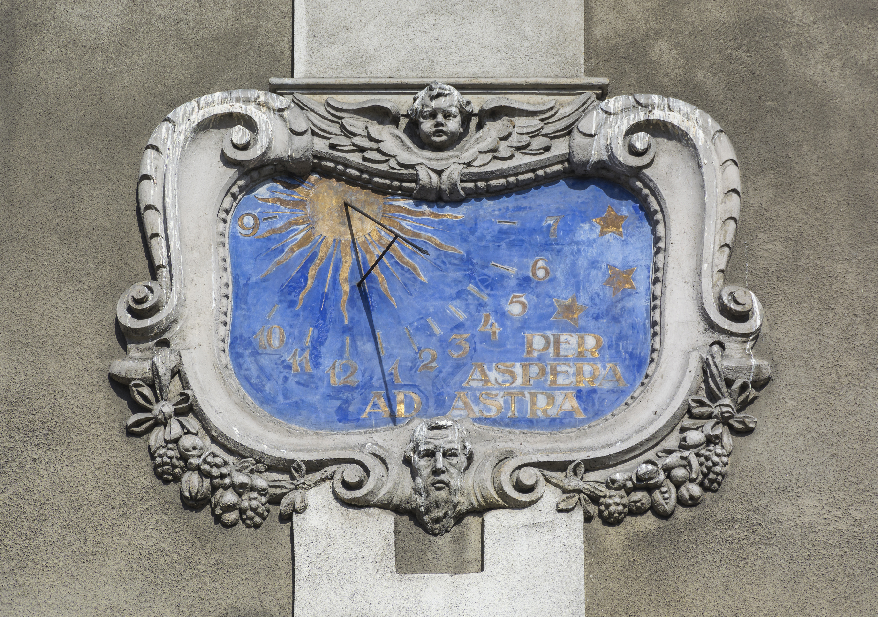 Sundial in former jesuit college in Kłodzko